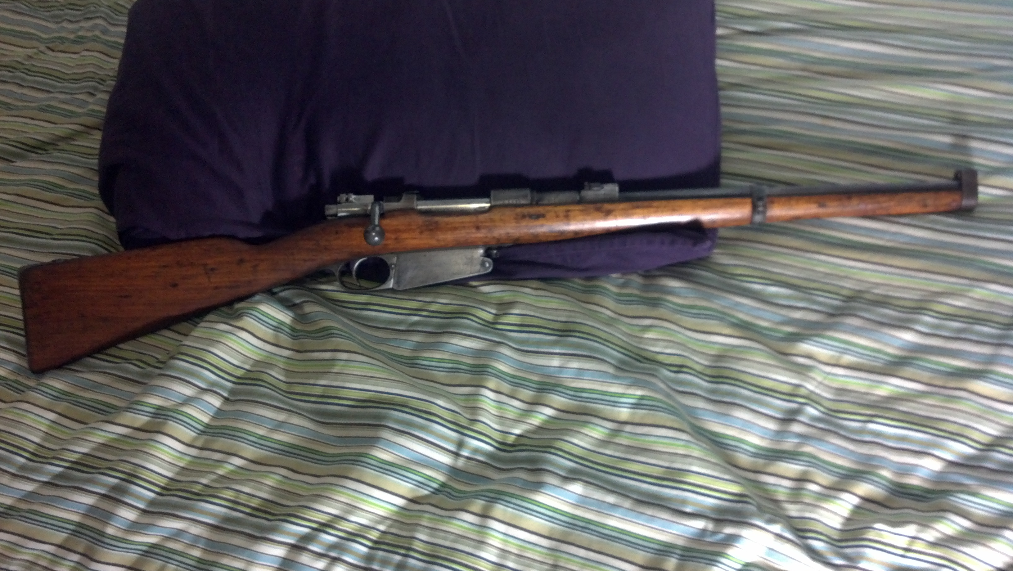 1891 Cavalry Carbine